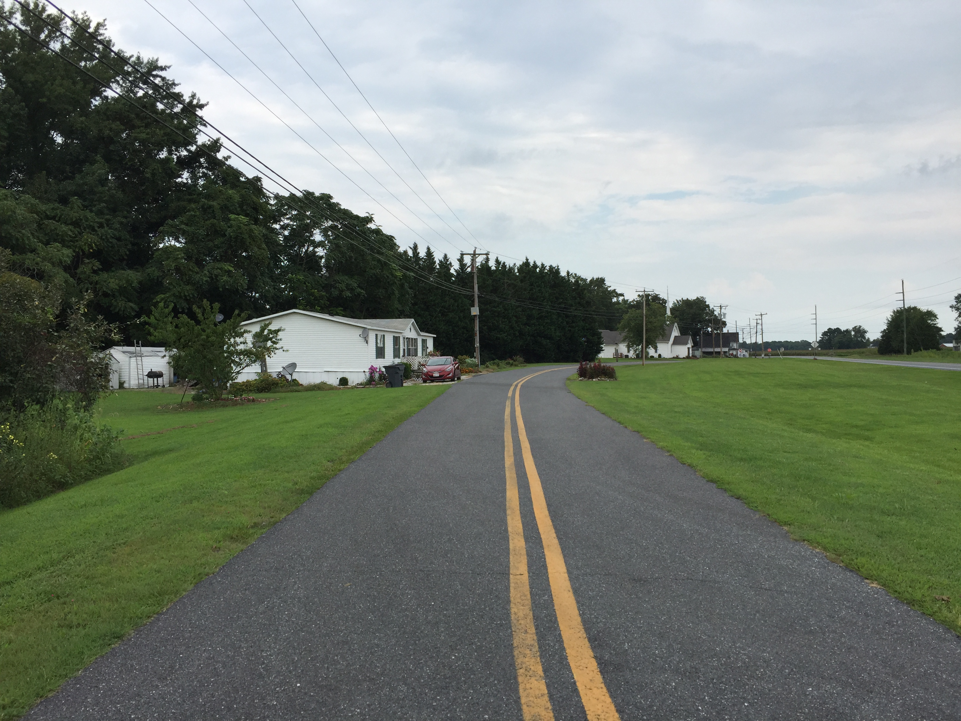 View north along Maryland State Route 819 (Reids Grove Road) at Maryland State Route 331 (Rhodesdale Vienna Road) in Reids Grove, Dorchester County, Maryland